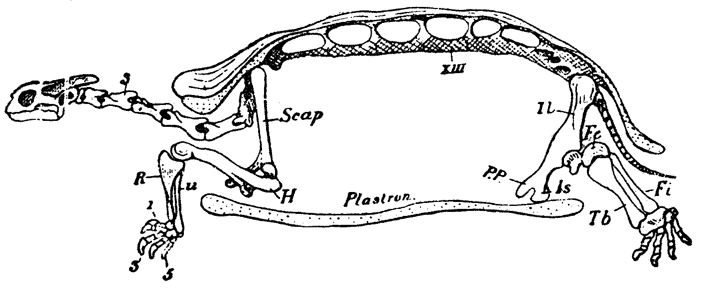 A black and white version of Image:SmithTestudoSkeleton.jpg with the text removed.